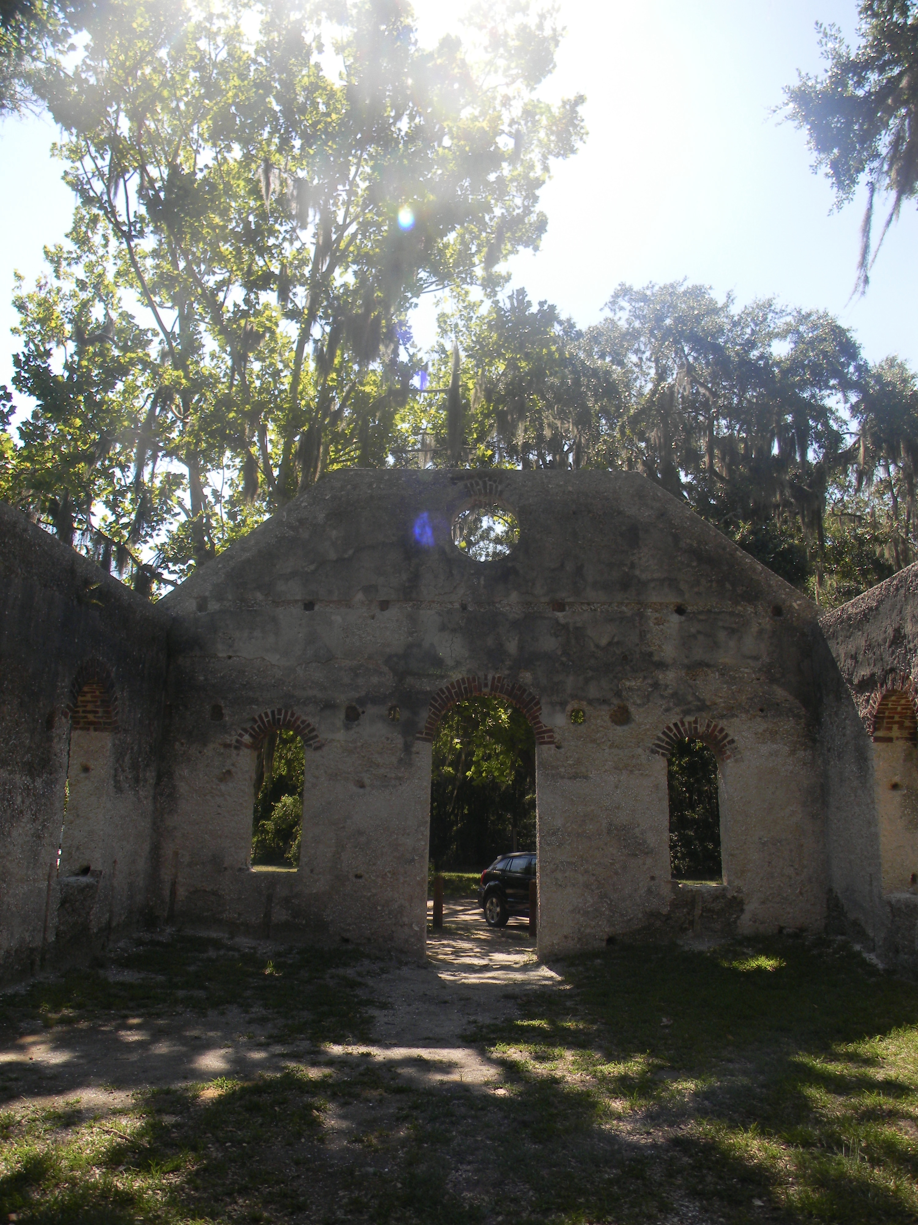 The front of the ruins from the inside of the chapel, showing the entrance arches and the tabby building techniques.